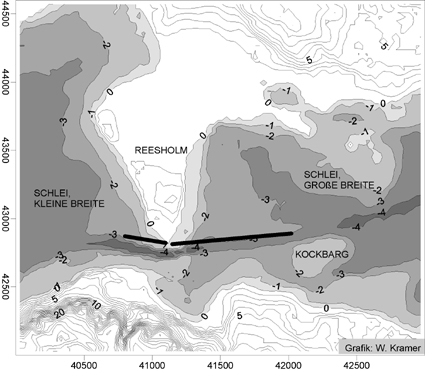 hydrographical map of seabarrier at danevirke